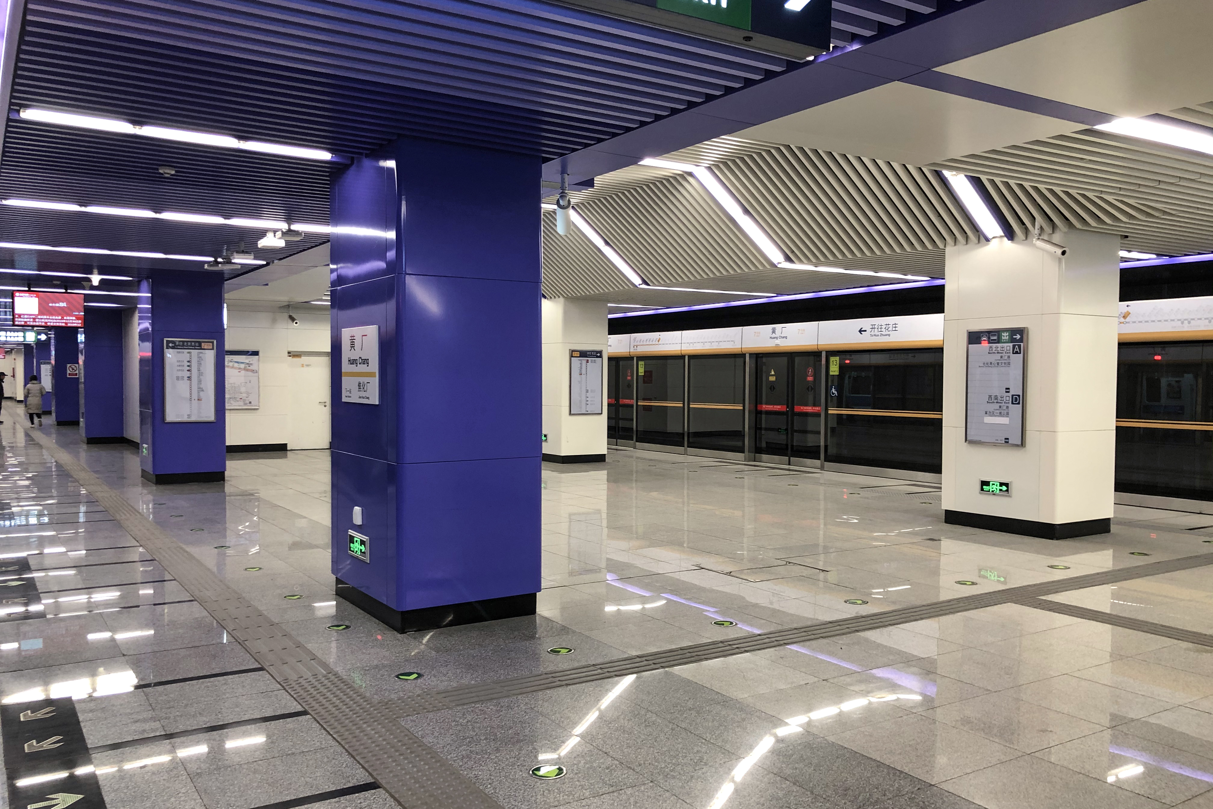 Wong Cheong Station, not yellow but purple. Huangchang was formerly a gunpowder factory in Qing dynasty?